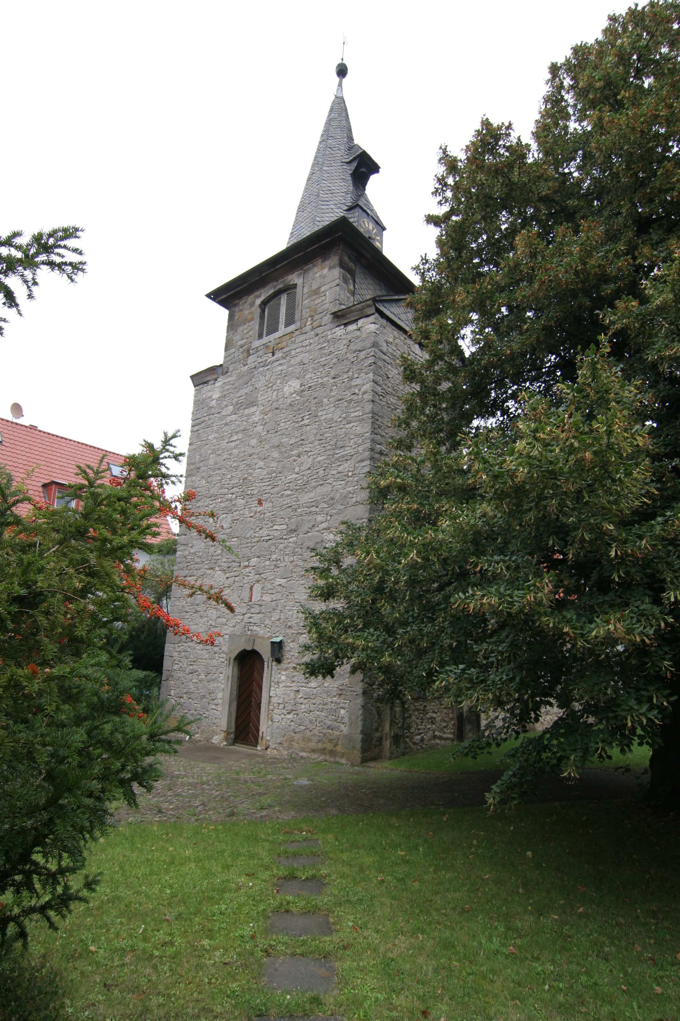 Barnten: Church St. Cathrin